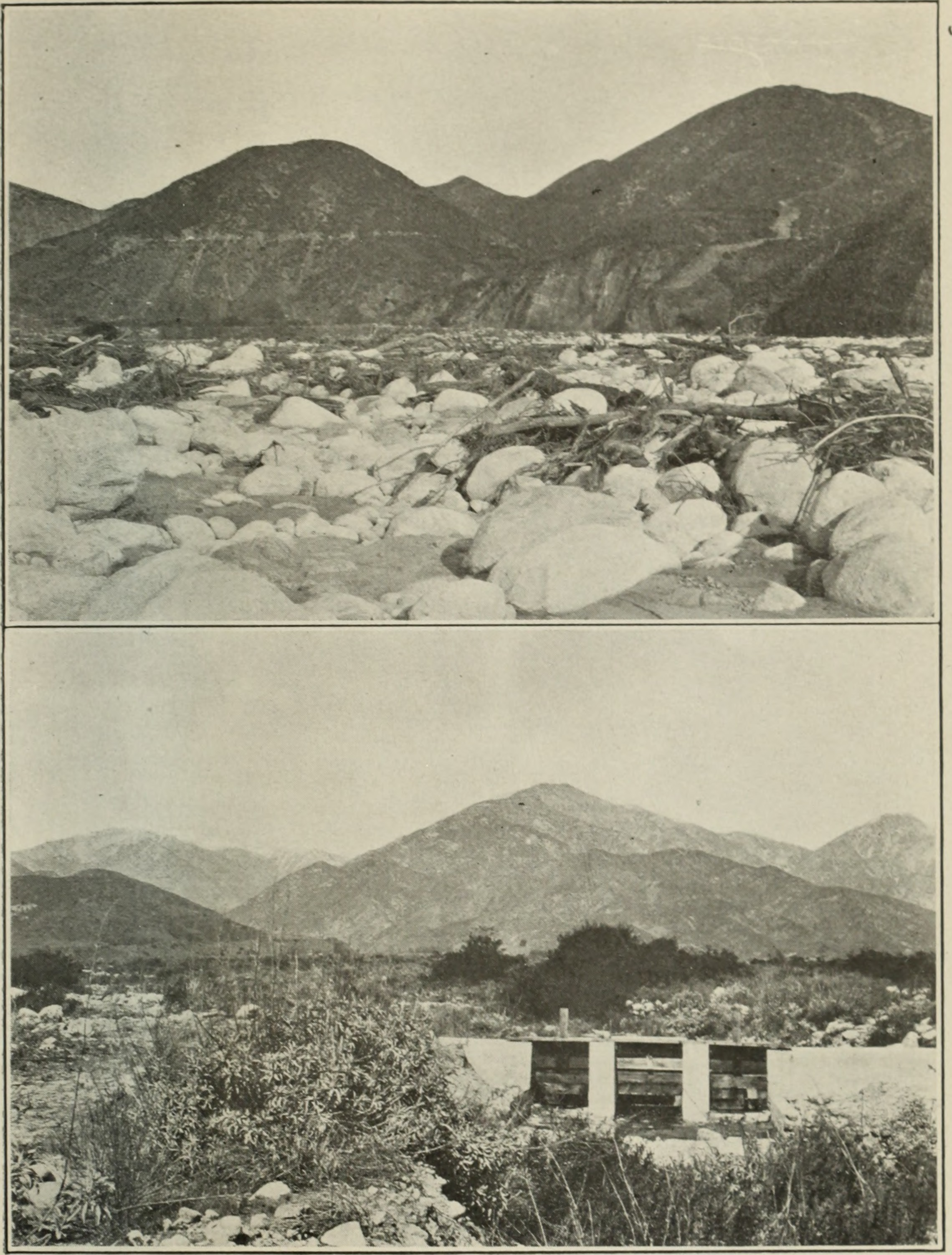 Title: Appendix to the Journals of the Senate and Assembly of the ... session of the Legislature of the State of California Year: 1853 (1850s) Authors: California. Legislature Subjects: Legislative journals Publisher: Sacramento : State Printing Text Appearing Before Image: ver, at the mouth of the canyon andthe head of the gravel cone. PI. IX, Fig. 1 shows the accumulation ofdrift after the flood of 1916 had subsided. Spreading Water on San Antonio Creek. San Antonio Creek is a smaller stream and water spreading has notbeen on so large a scale as on Santa Ana Eiver, but the methods havebeen similar. The mouth of San Antonio Canyon is shown by PL X,Fig 2. Proof as to the value of spreading water is perhaps more con-clusive on San Antonio Creek than on the Santa Ana. The water isspread over the boulders, gravel and soil below the canyon with slope of200 to 100 feet per mile. An association has been organized among thew^ater companies and individual well owners, of which there are many inPomona Valley, to conduct the work, and the cost is borne by the mem-bers in the proportion that water is used by them. At first the head-works were of a temporary kind and much work had to be done when thefloods came to divert the water. Three main ditches are used. Later Text Appearing After Image: Plate IX, Fig. 1 (upper).—Drift left below Santa Ana Canyon by flood of January. 1916.The diversions of the Water Conservation Association are made just below this point. Fig. 2(lower).—Division and control gate on ditch for spreading water on San Antonio Creek. Theview shows the general character of the spreading ground. Bui. 4—(p. 24)